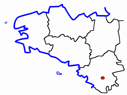 Description: Map for localisazion of cantons of Pays-de-Loire, region in France Source: made by Hervé Tigier in april 2005 from another large map (published in 1990)